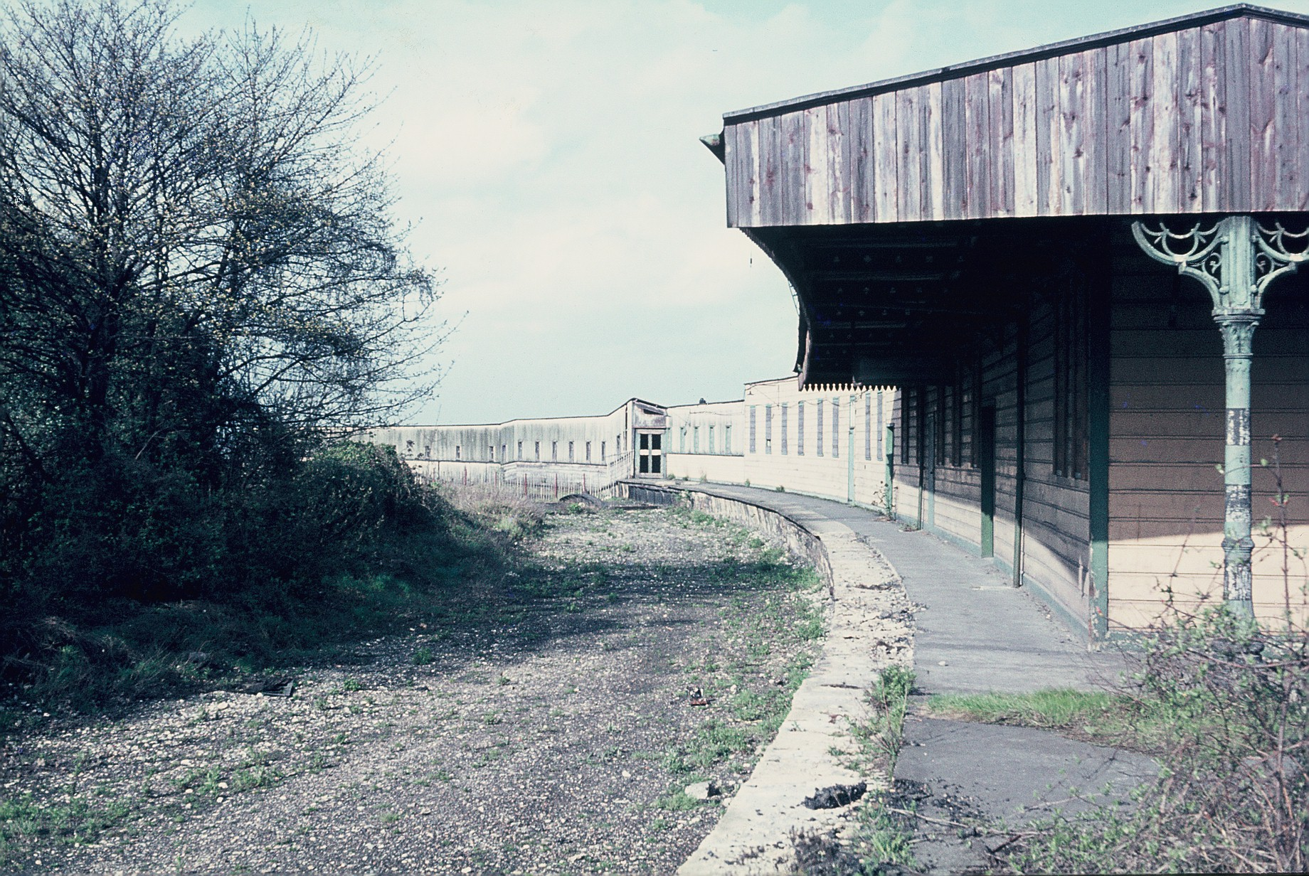 Trackless Gravesend West Street station.